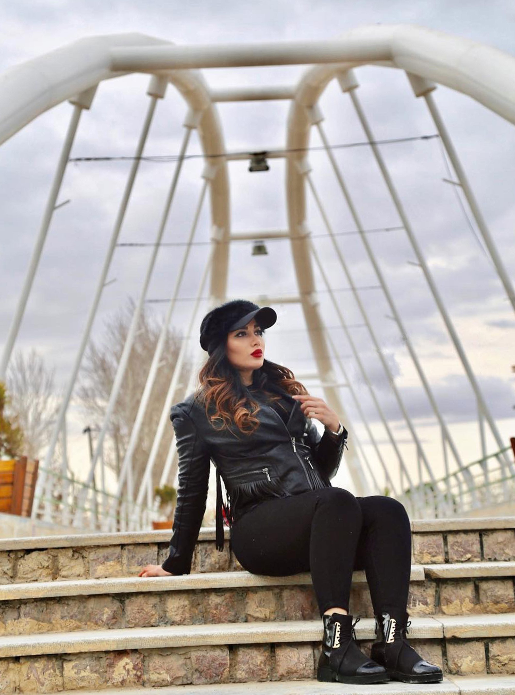 An Iranian woman in Isfahan city, 2019.